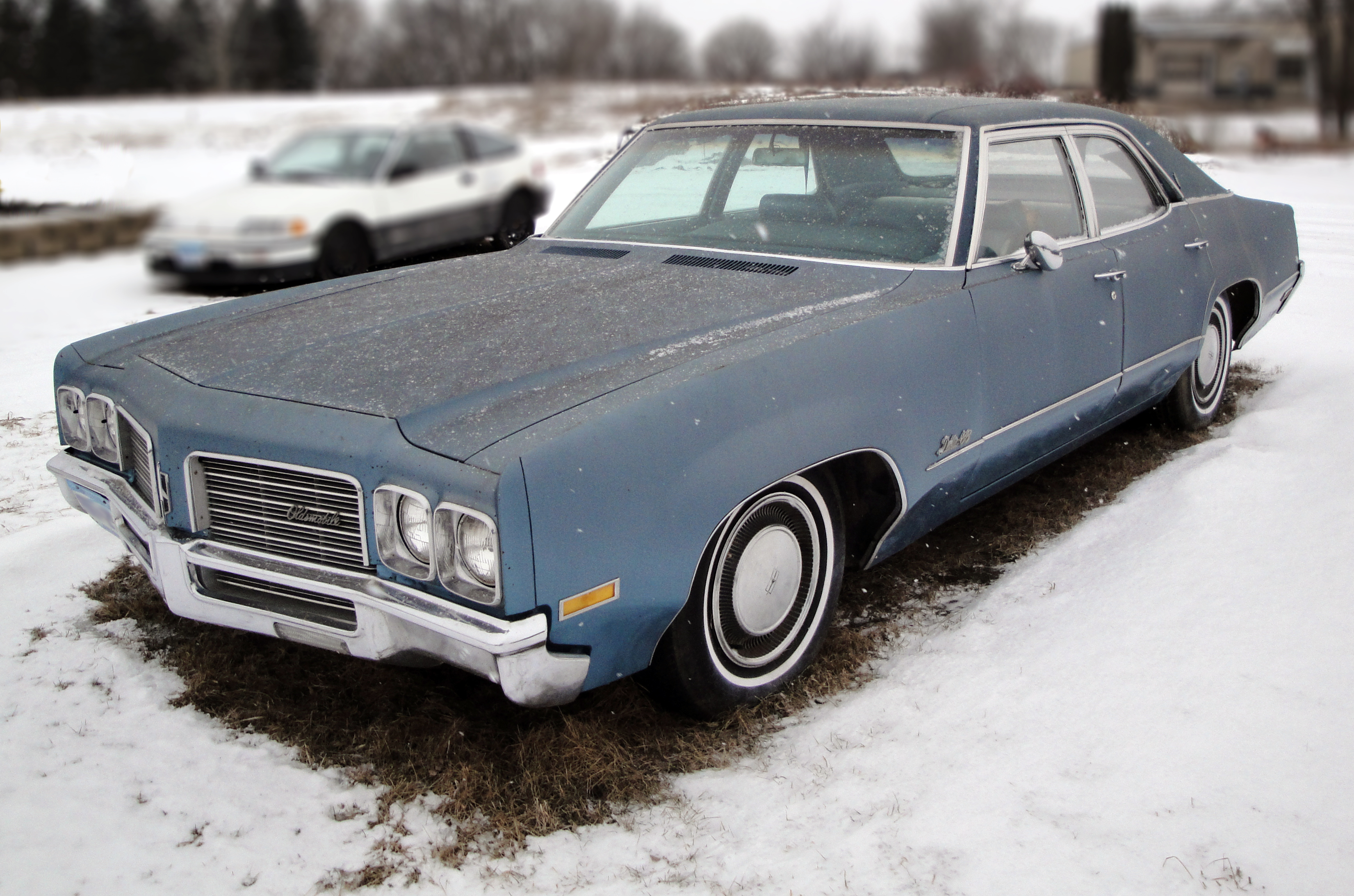 1970 Oldsmobile Delta 88 sedan in frosty Minnesota.